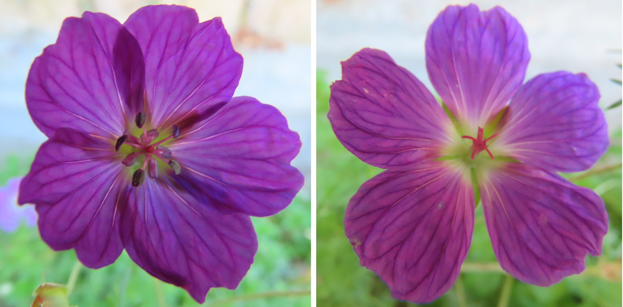 Geranium incanum (and possibly other Geranium spp. as well; I don't know) has an unusual means of inhibiting self-pollination; at first the anthers are unopened, but they soon ripen, while the pistil is not yet open. At this time the petals still are relatively dark in colour. After a few days the androecium withers and the stamens are shed. The gynoecium now ripens and opens, becoming receptive to pollinators. At this stage the flowers become perceptibly paler, possibly as a signal to pollinators that might be more tempted by pollen or nectar, as the case might be. These two photographs were taken from the same plant on the same day, the flower on the left a few days younger than the other, the difference between the gynoecium and the androecium and the petal colour is visible.